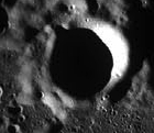 Cropped image from the chart LAC-144 (North at left hand side)